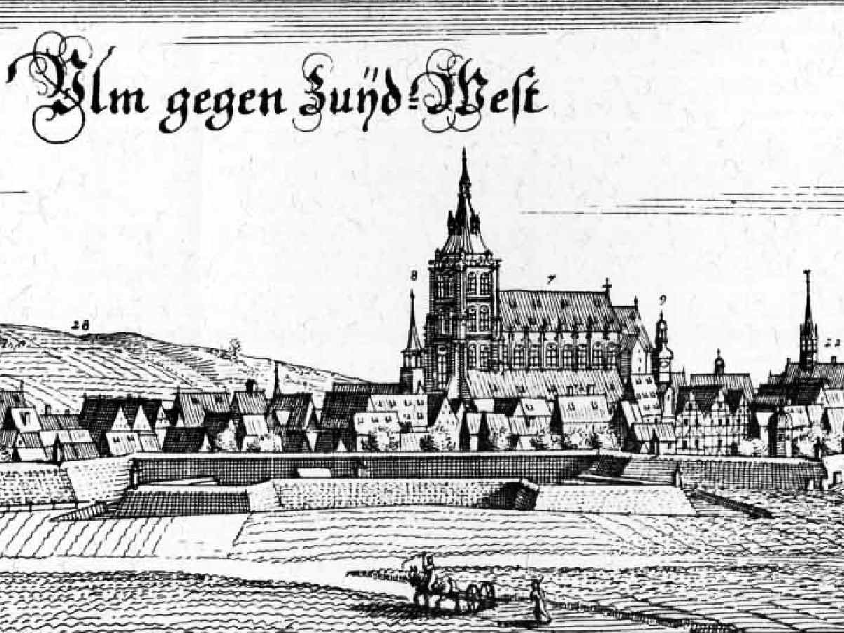 The cathedral "Ulm Münster" of Ulm/Germany, Crop of „De Merian Sueviae“ Page 267